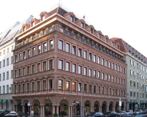 View of Gendarmenmarkt in Berlin.